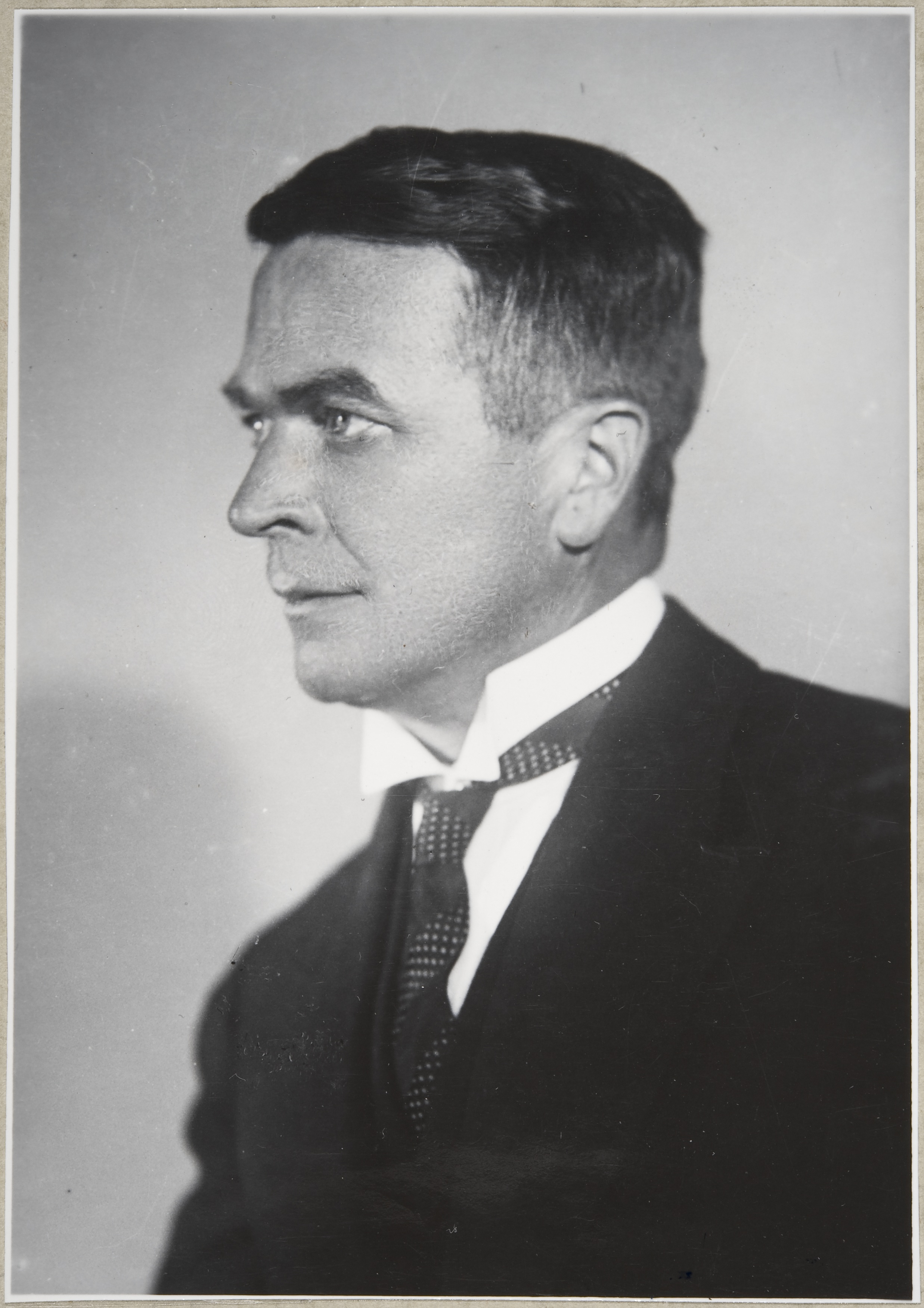 Photograph of the Finnish composer Väinö Raitio (1891–1945).